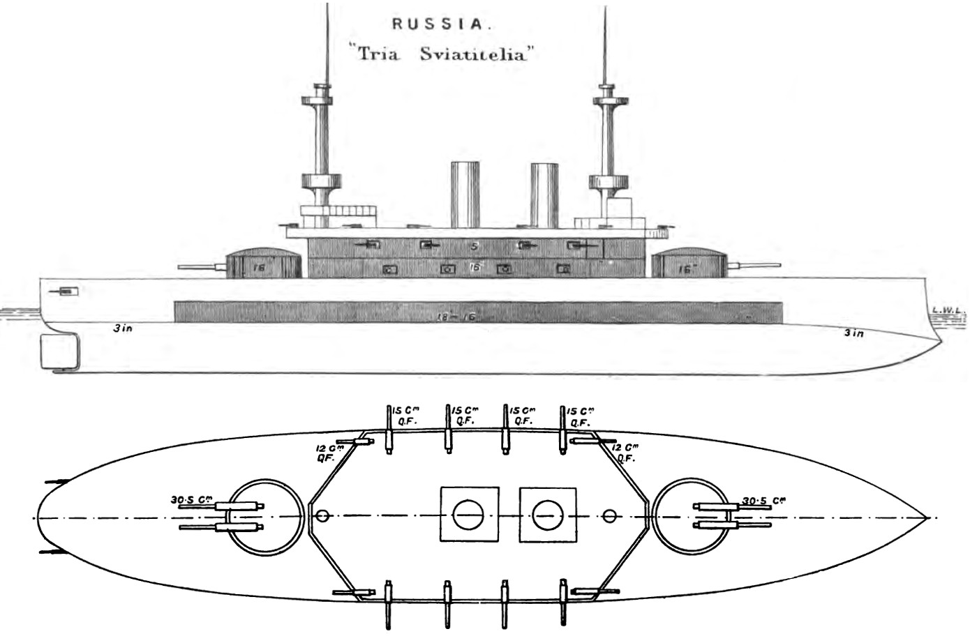 Right elevation and deck plan depicting Russian battleship Tri Svyatitelya. Top diagram (right side view) shows thickness of armour in inches. Bottom diagram (deck plan) shows sizes of guns in cm.